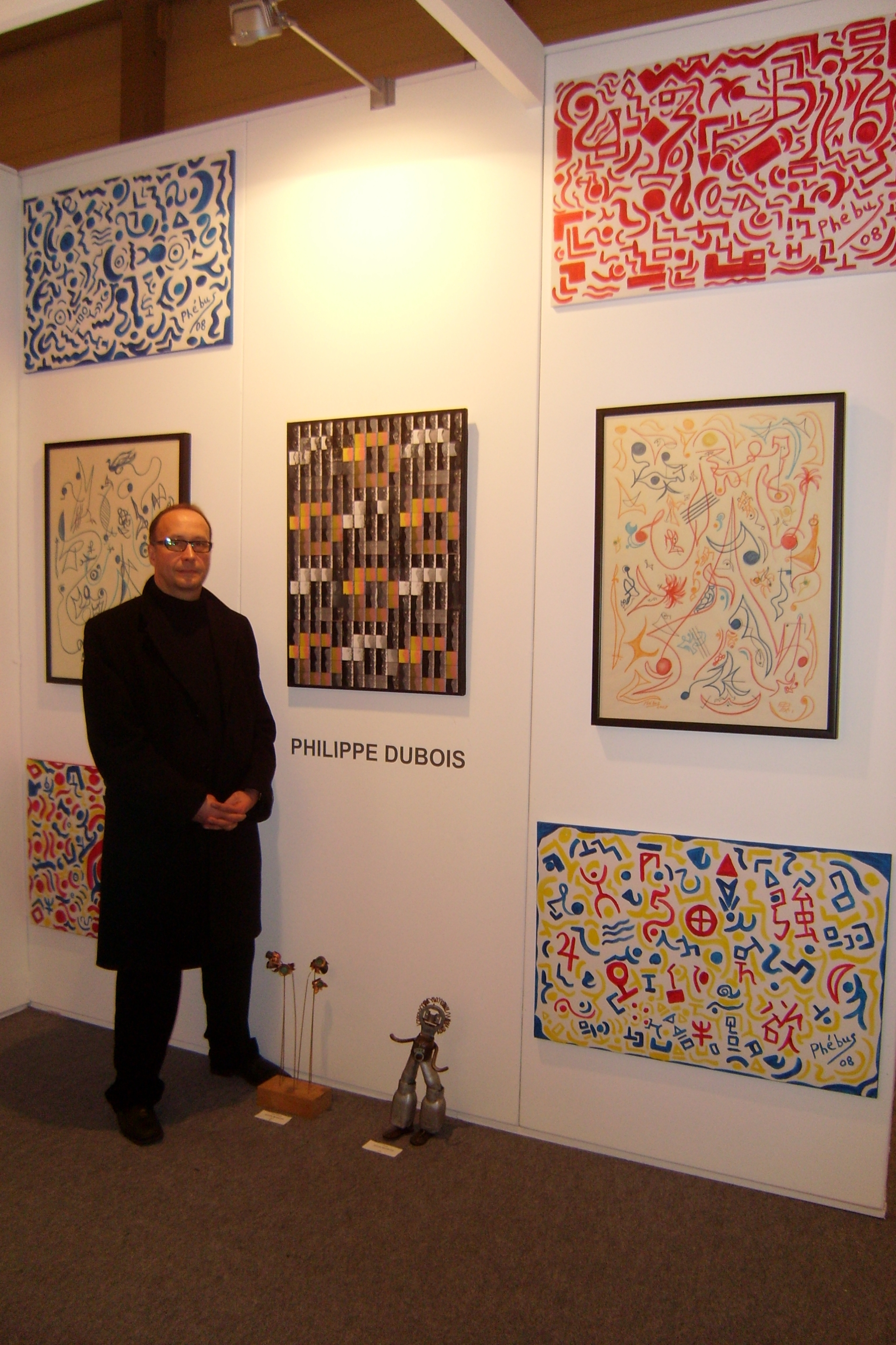 Phebus, belgian painter